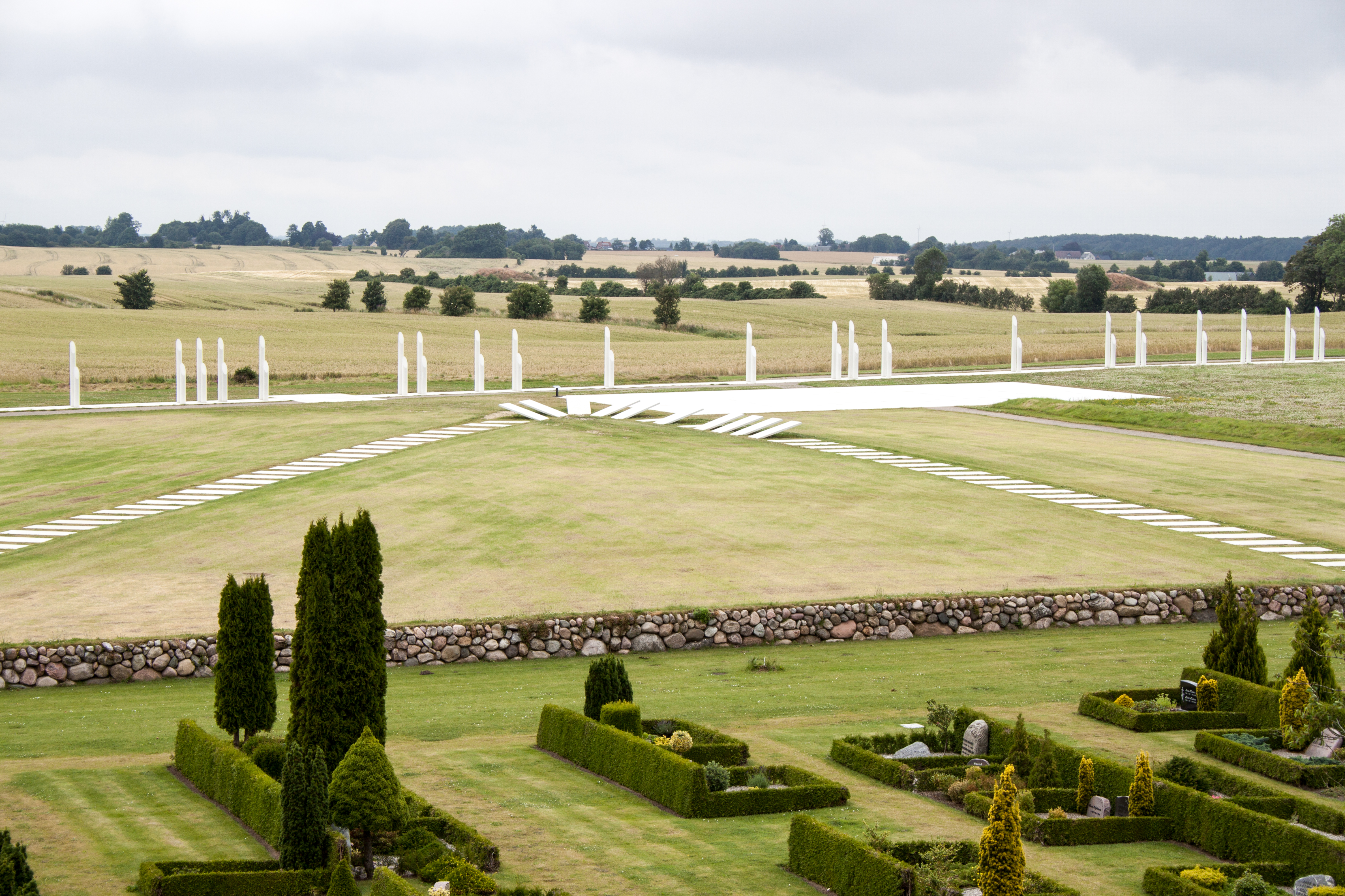 View from the northern moundlabel QS:Len,"View from the northern mound" label QS:Lhu,"Kilátás az északi halomról"